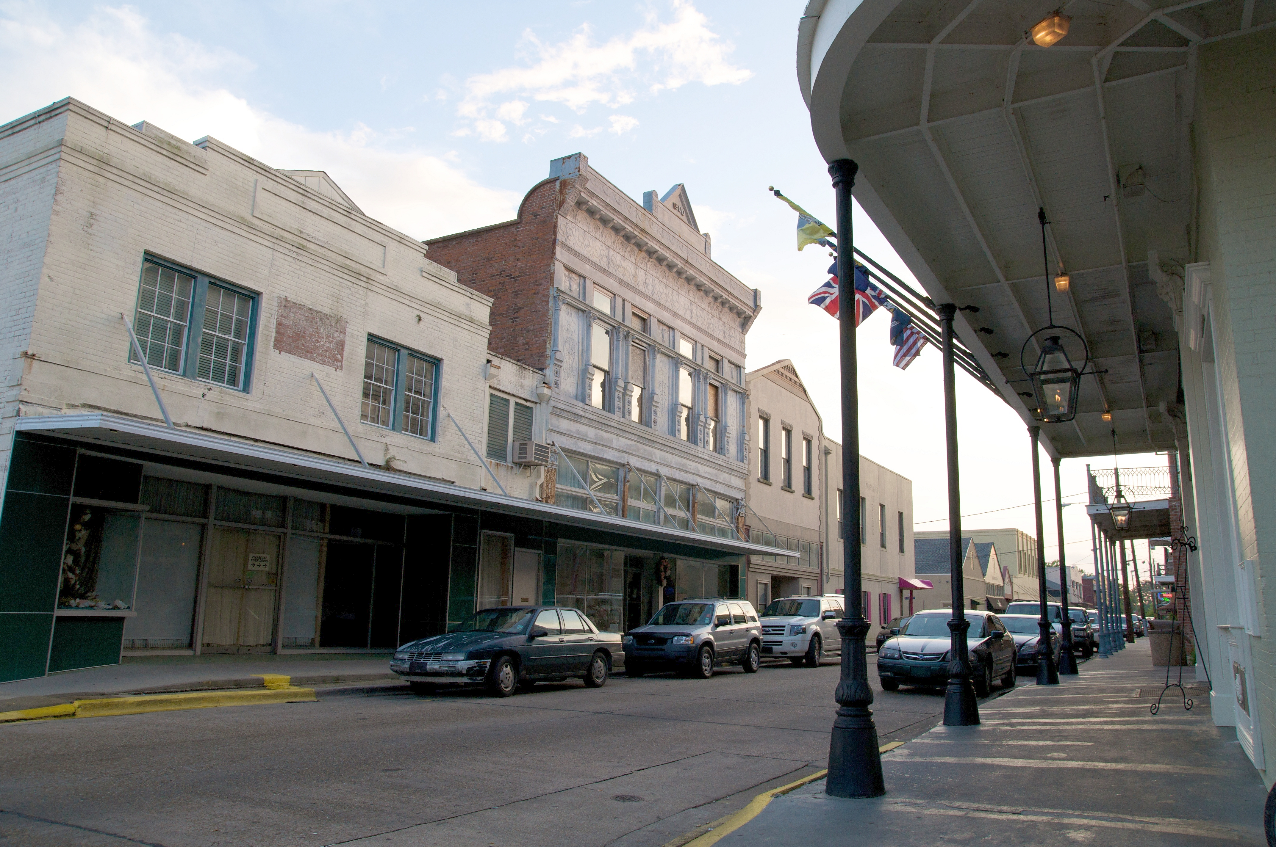 The main drag in downtown Thibodaux.